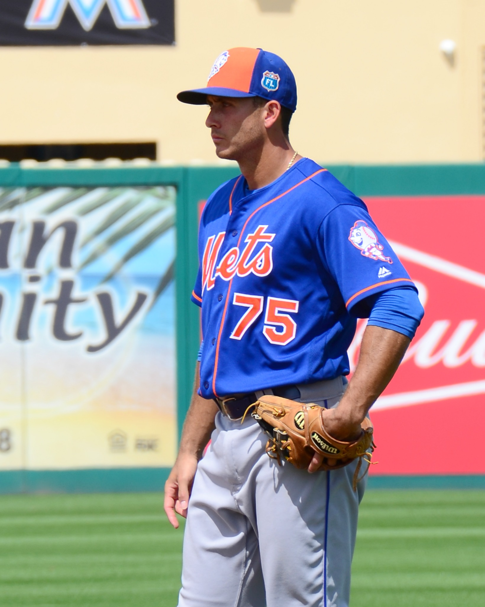 T. J. Rivera of the New York Mets in Spring Training, 2016.